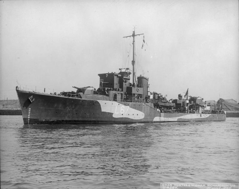 The Greek Navy during the Second World War HHMS Adrias, on the river Tyne